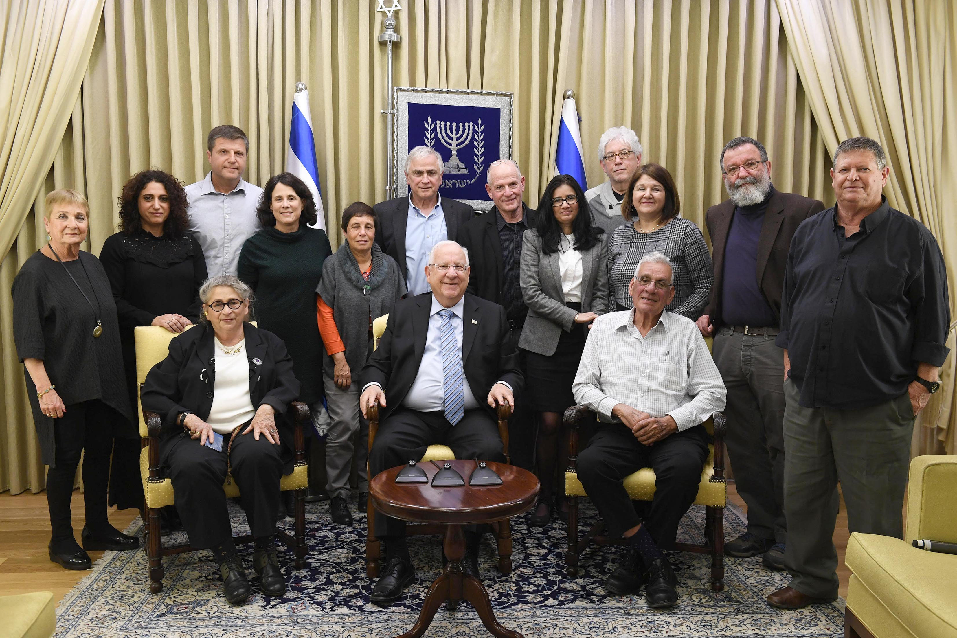 the President of Israel, Reuven Rivlin, and his wife host ERAN Emotional First Aid association volunteers Sunday, February 3, 2018. Photo Credit: Mark Neiman / GPO.